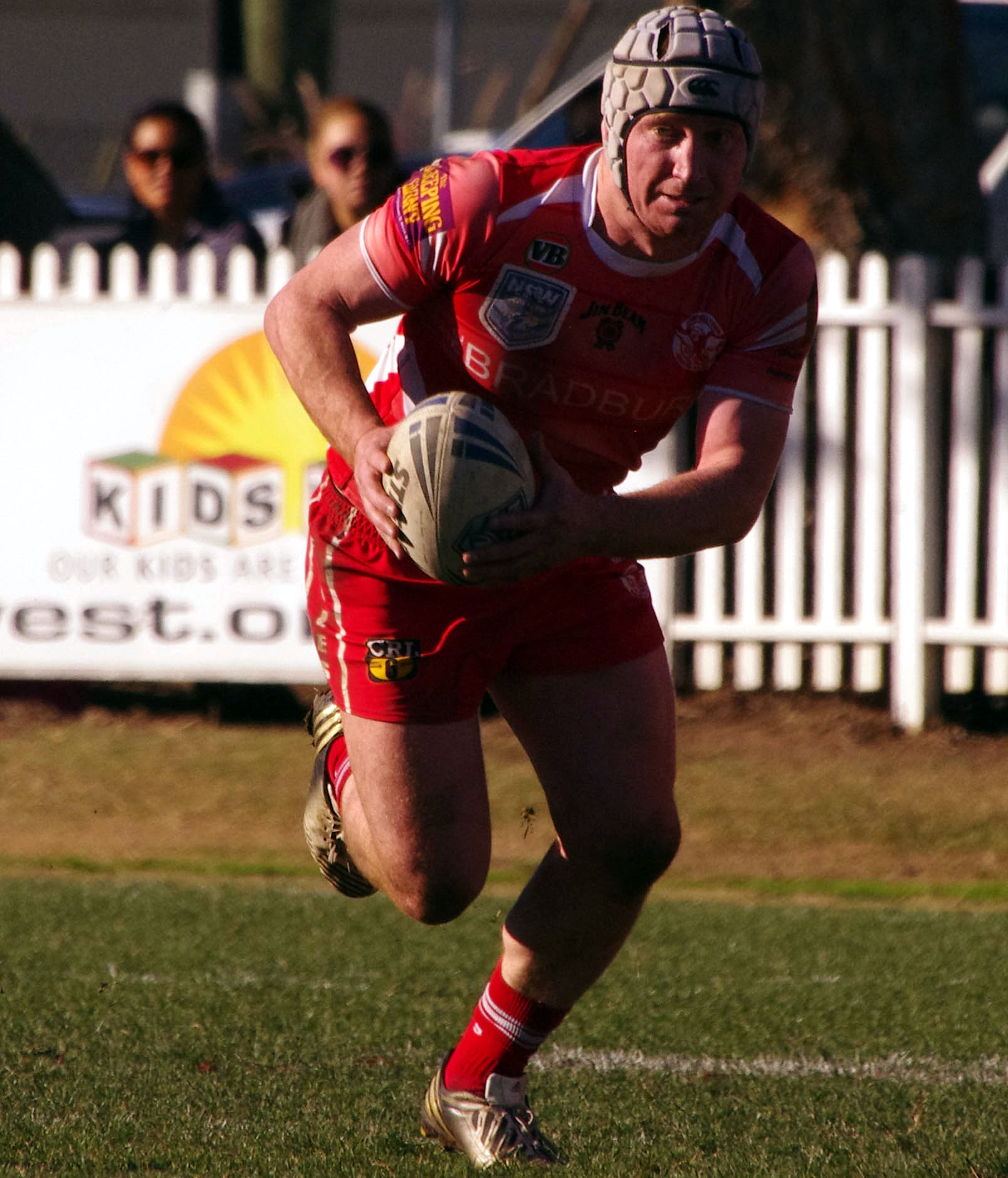 Sam Hoare